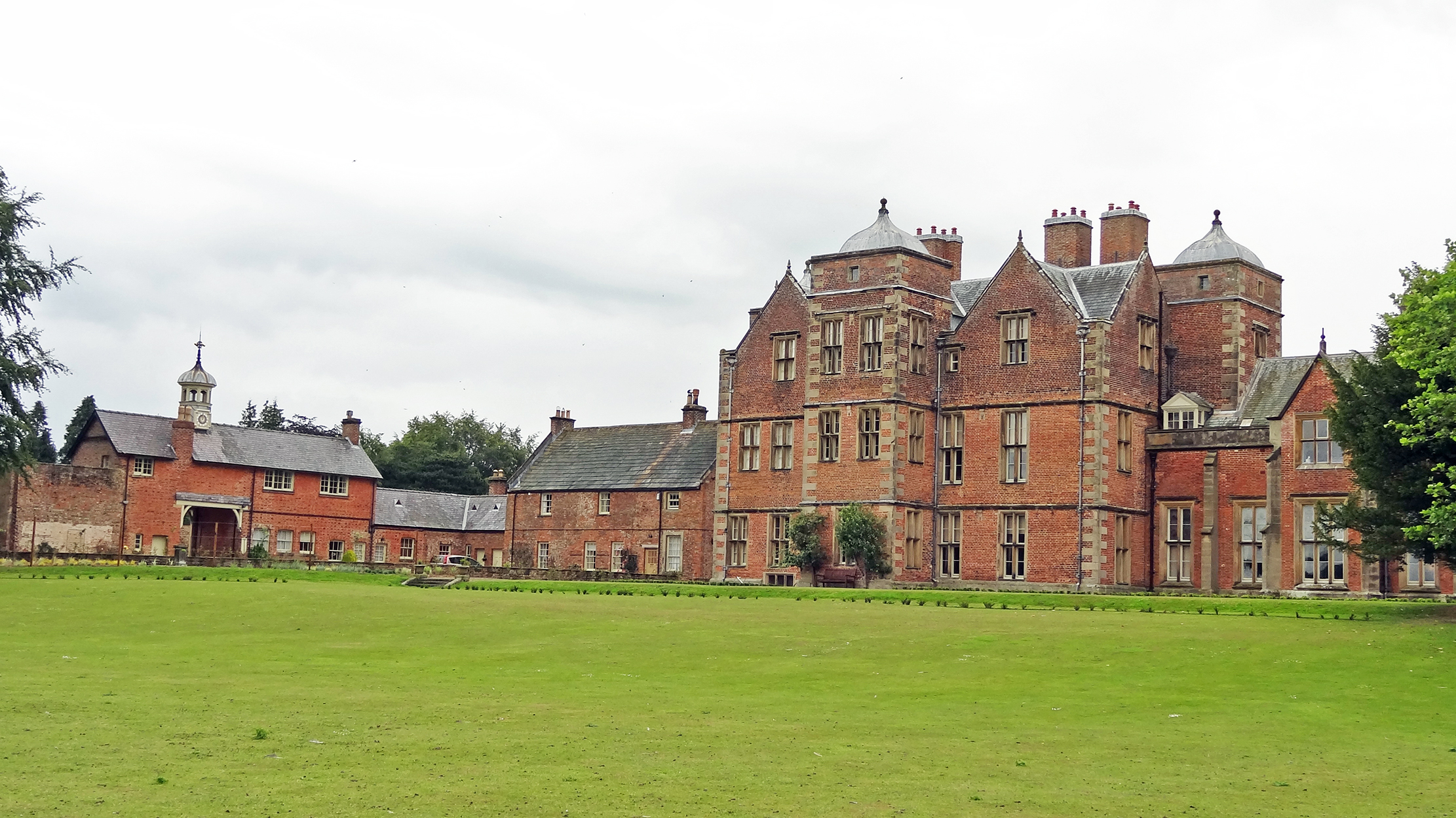 a general view of the back of the Grade I listed Kiplin Hall from beside the lake